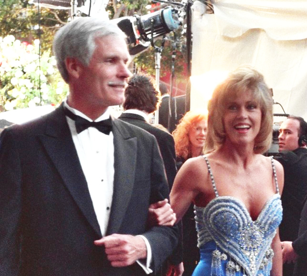 Ted Turner and Jane Fonda march 1990